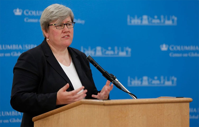 Rachel Kyte SEforALL